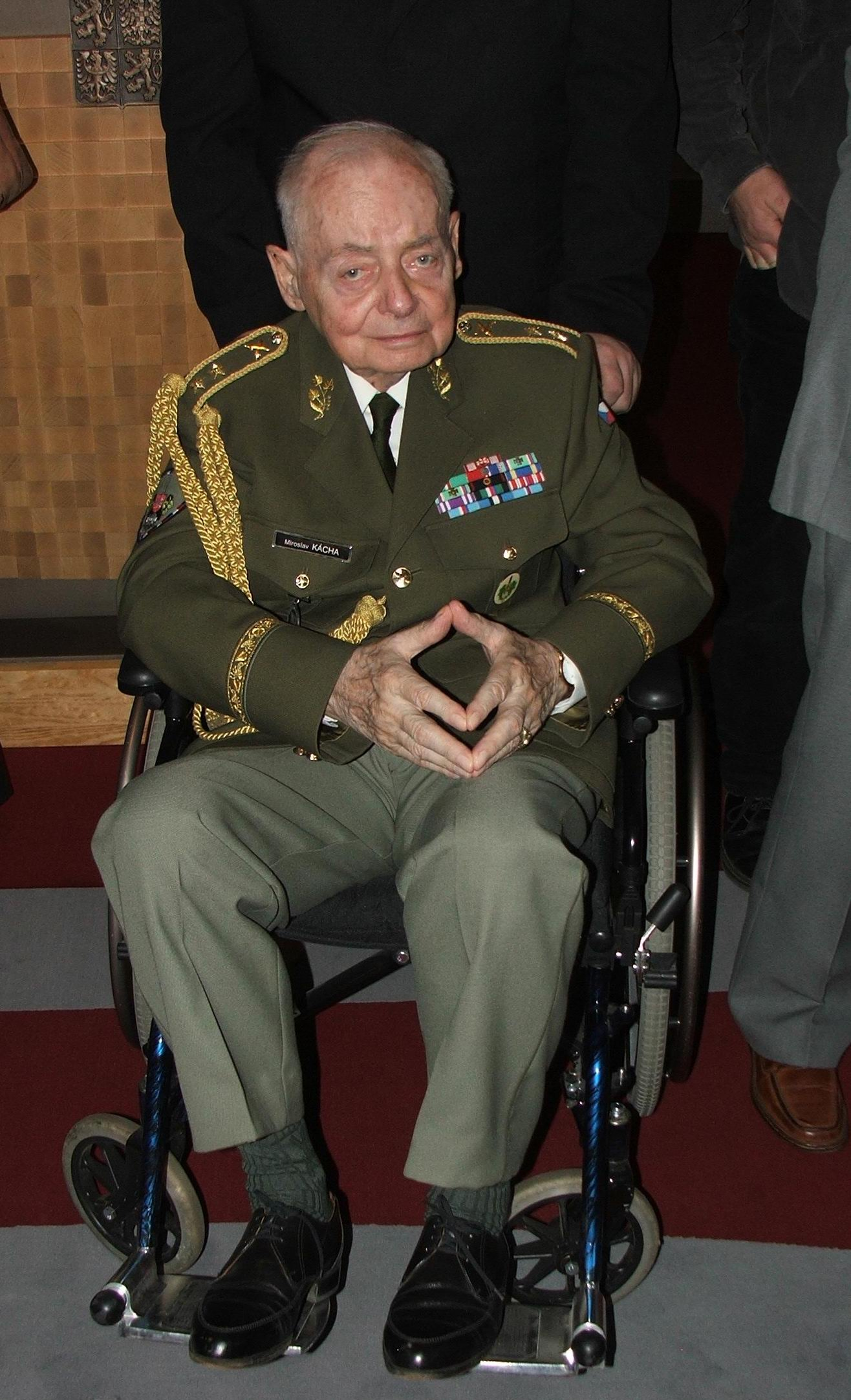 Miroslav Kácha - Czech general and political prisoner of Czechoslovak communist goverment.